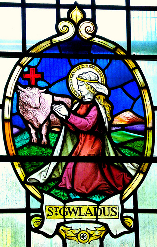 Stained glass image of St Gwladus in St Martin's Parish Church, Caerphilly. The picture dates from 1953